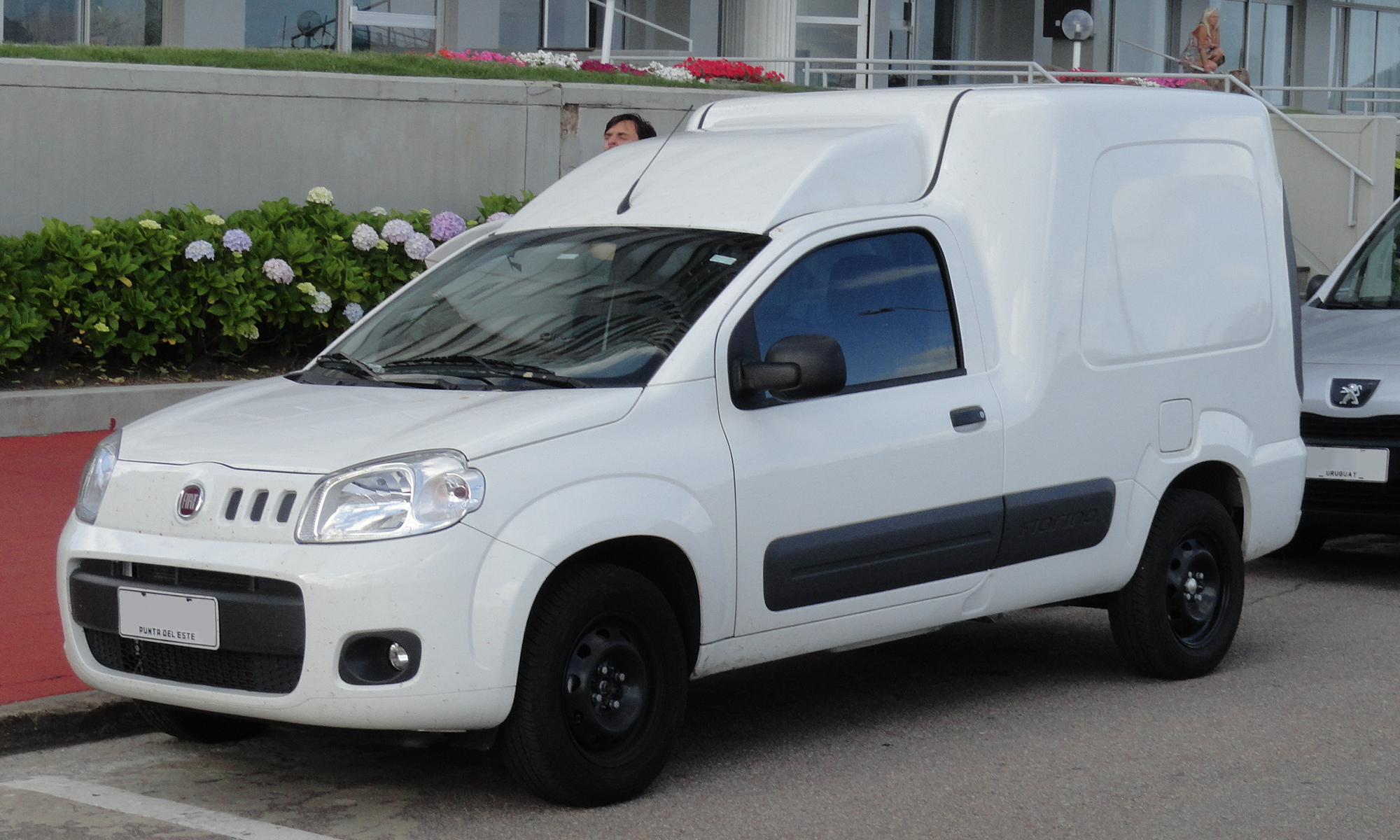 Fiat Fiorino (XMF 2650) photographed in Punta del Este (Uruguay)